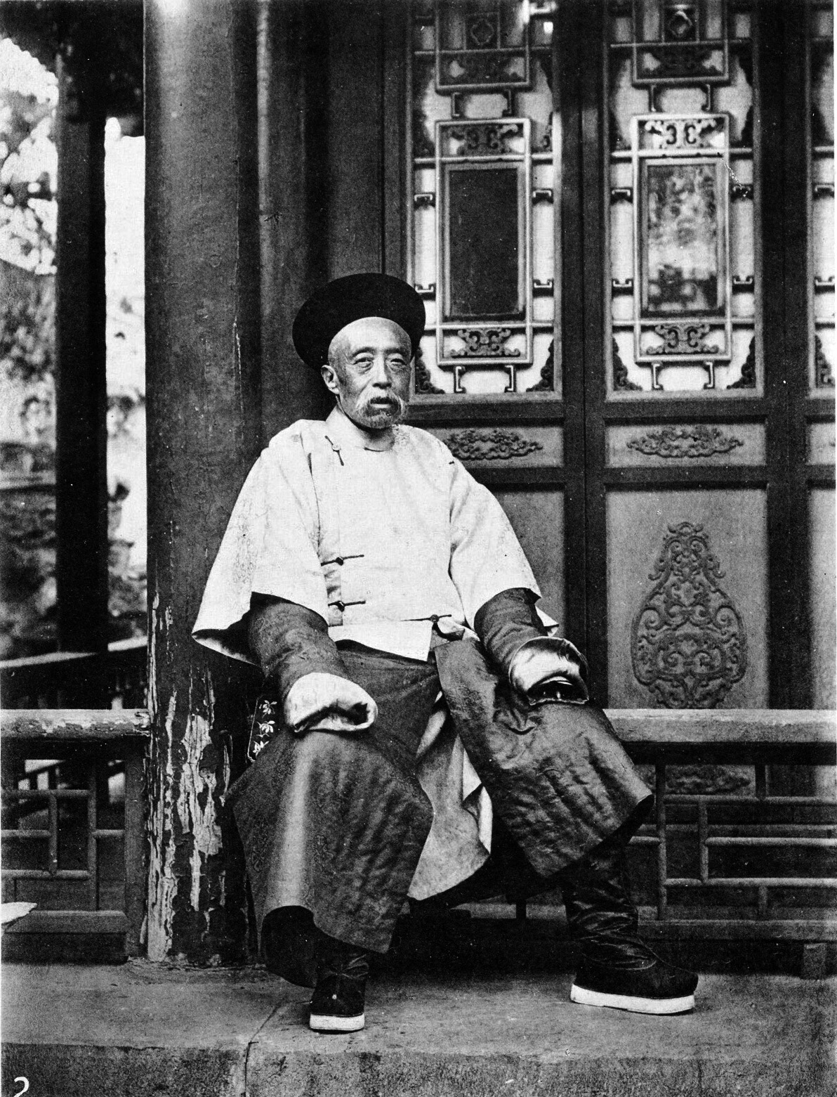 John Thomson: Wen-siang, a Manchu, born at Mukden in 1817. He ranks next to Prince Kung on the Board of Foreign Affairs, and has held the position since 1861. He is also a member of the Grand Council, President of the Board of Civil Service, and member of the Imperial Cabinet (plurality of offices is, therefore, by no means disapproved of in China). His rare intellectual powers (Sir F. Bruce pronounced him one of the strongest minds he had ever encountered), coupled with his long experience in the functions of high office, cause Wen-siang to be looked upon as the most influential statesman in China. Formerly he was esteemed exceptionally liberal in his views, but of late years he has discovered symptoms of a reactionary tendency. His portrait is given in No. 2.